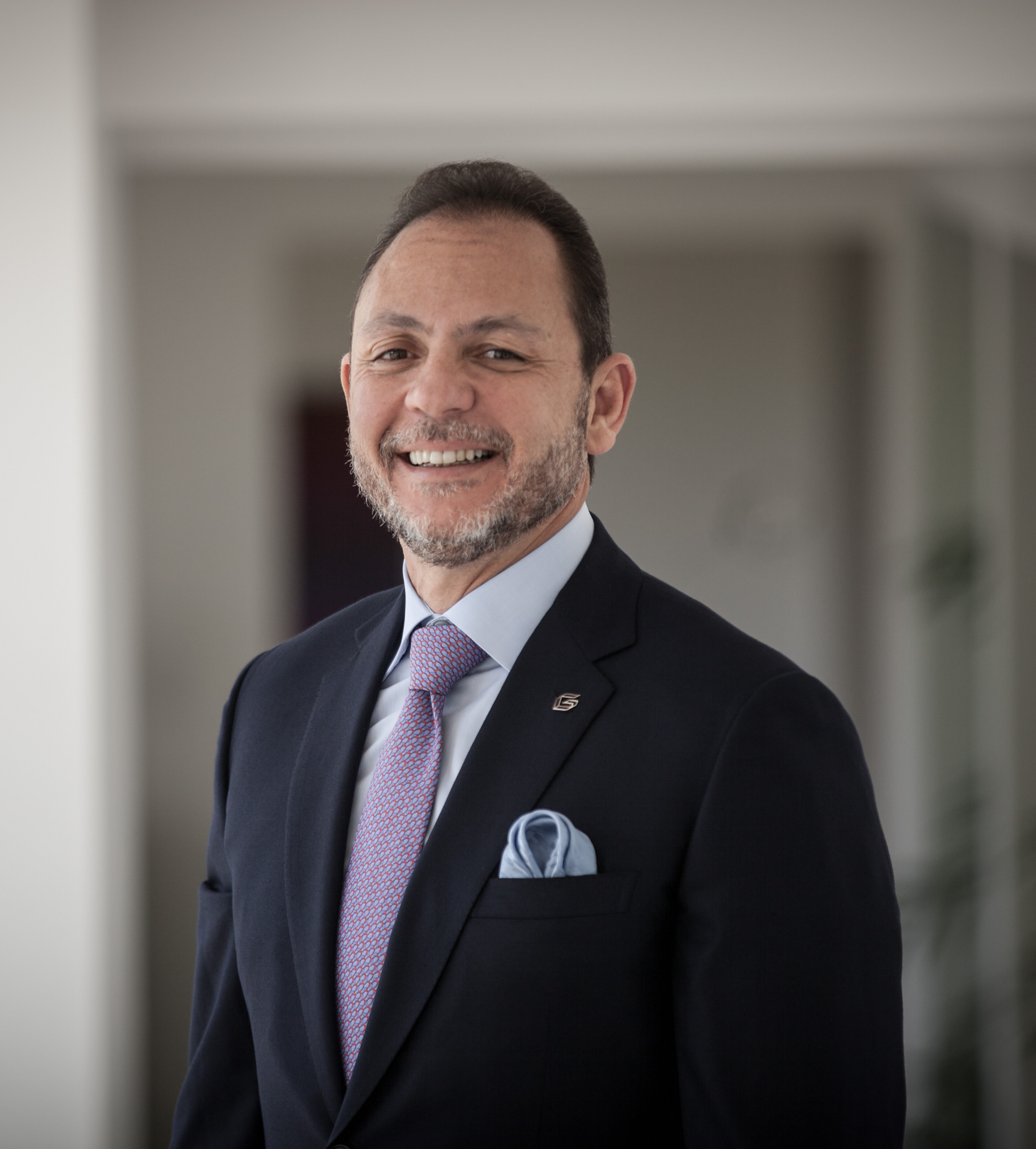 Raúl Gorrín, President of Globovision and La Vitalicia insurance